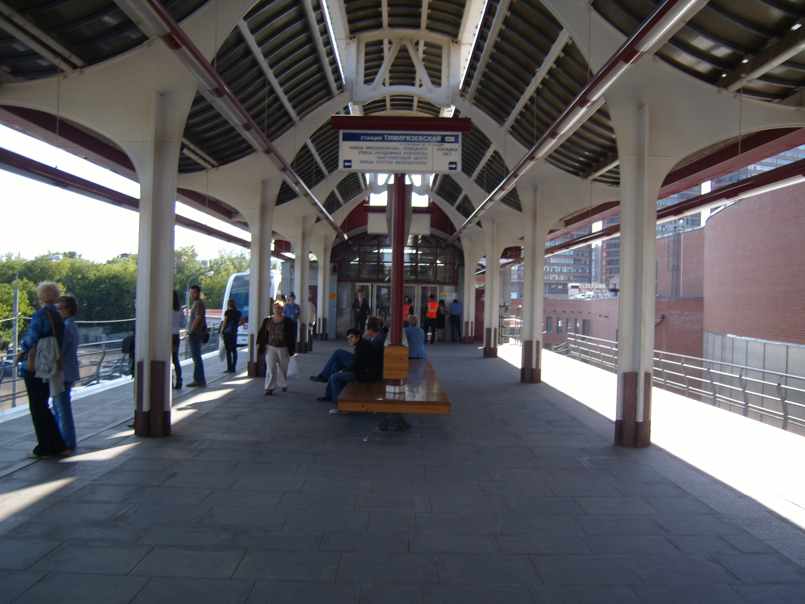 Station of Moscow monorail transport system "Timiryazevskaya"